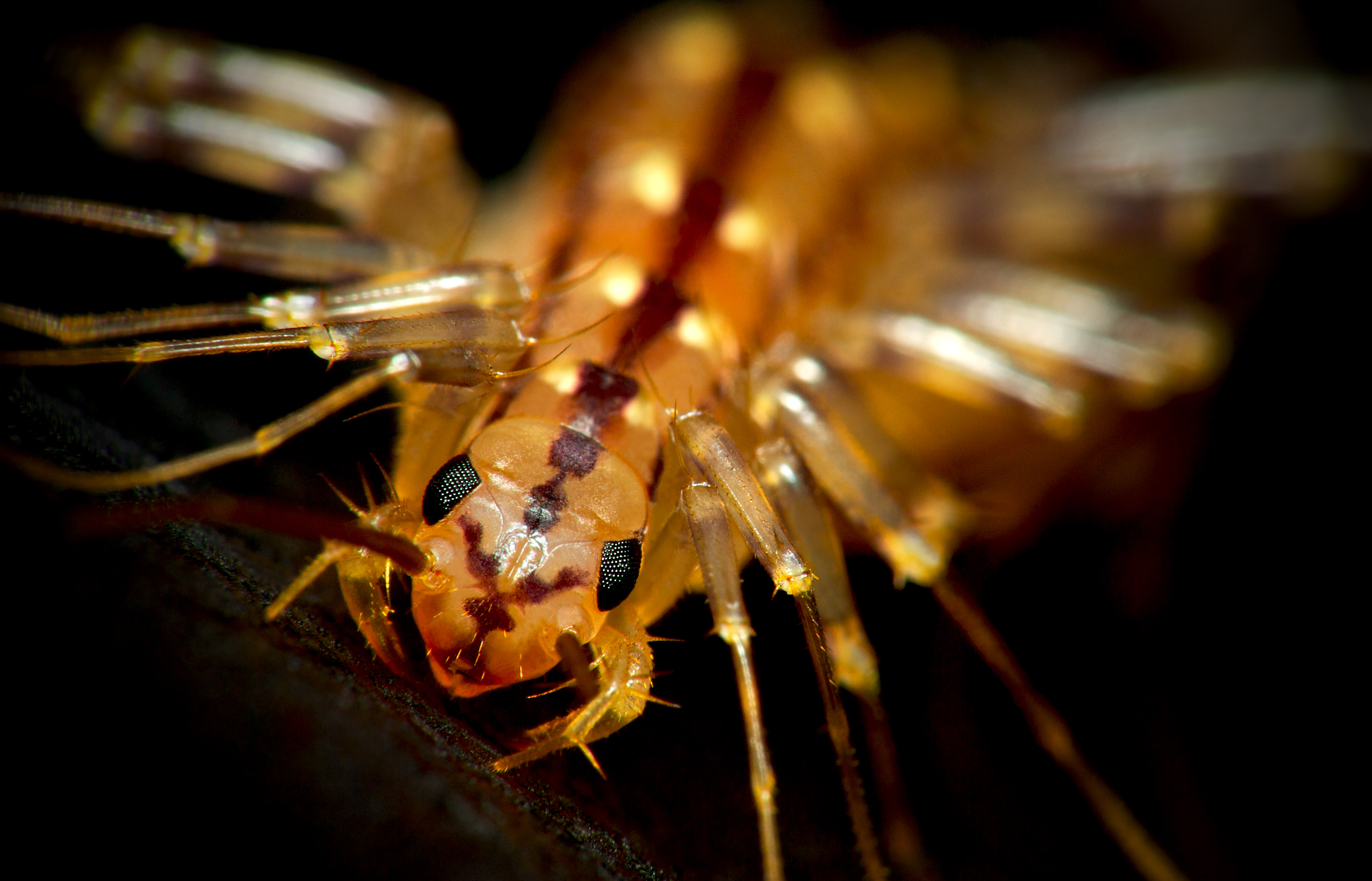 Closeup of a house centipede found in a dormitory in Charlottesville, Virginia.